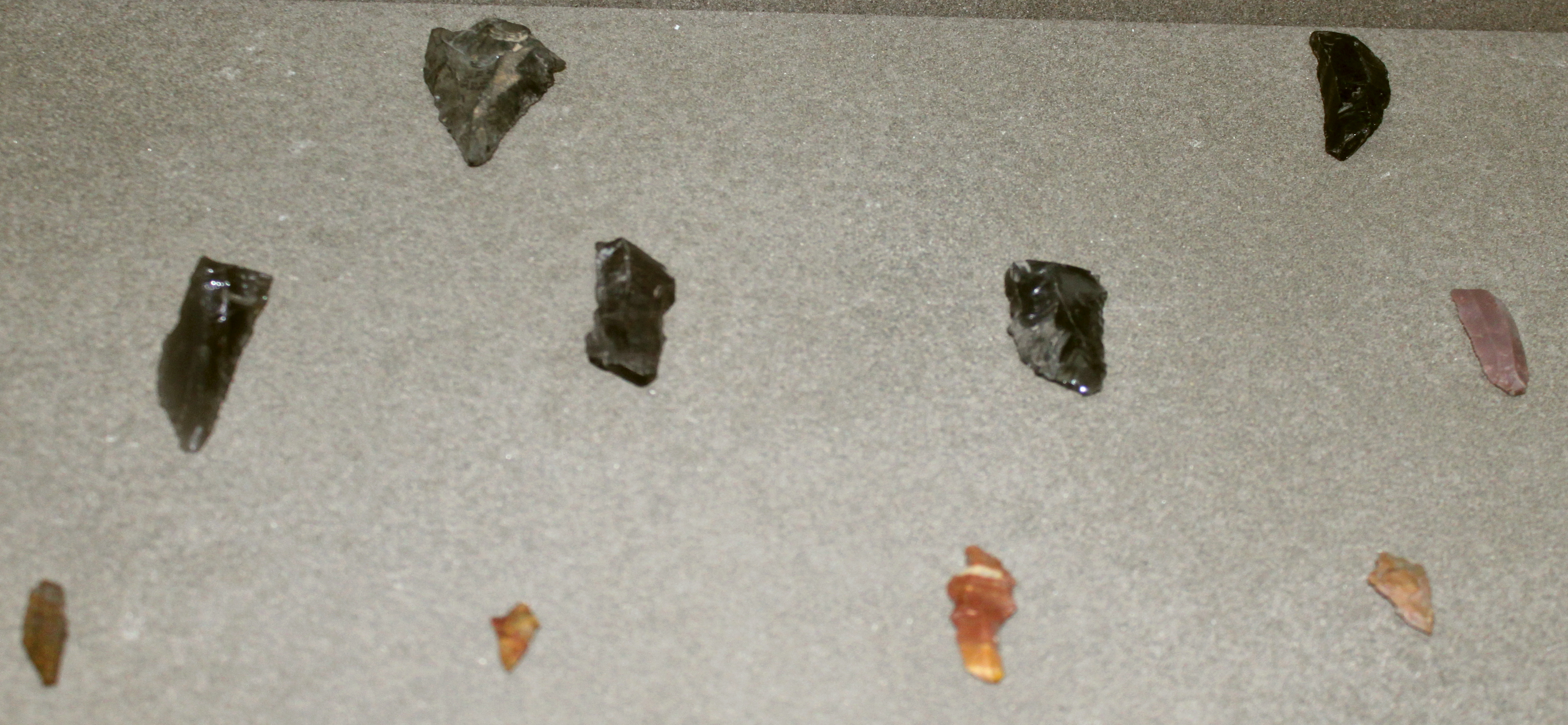 Çaxmaqdaşı və bazaltdan əmək alətləri, Kəkil (Qazax), Ceyrançöl (Qazax), Bığlıdağ (Qazax)